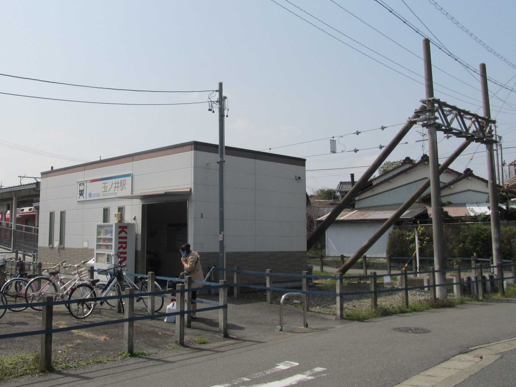 Nagoya Railroad Bisai Line Tamanoi Station Building.